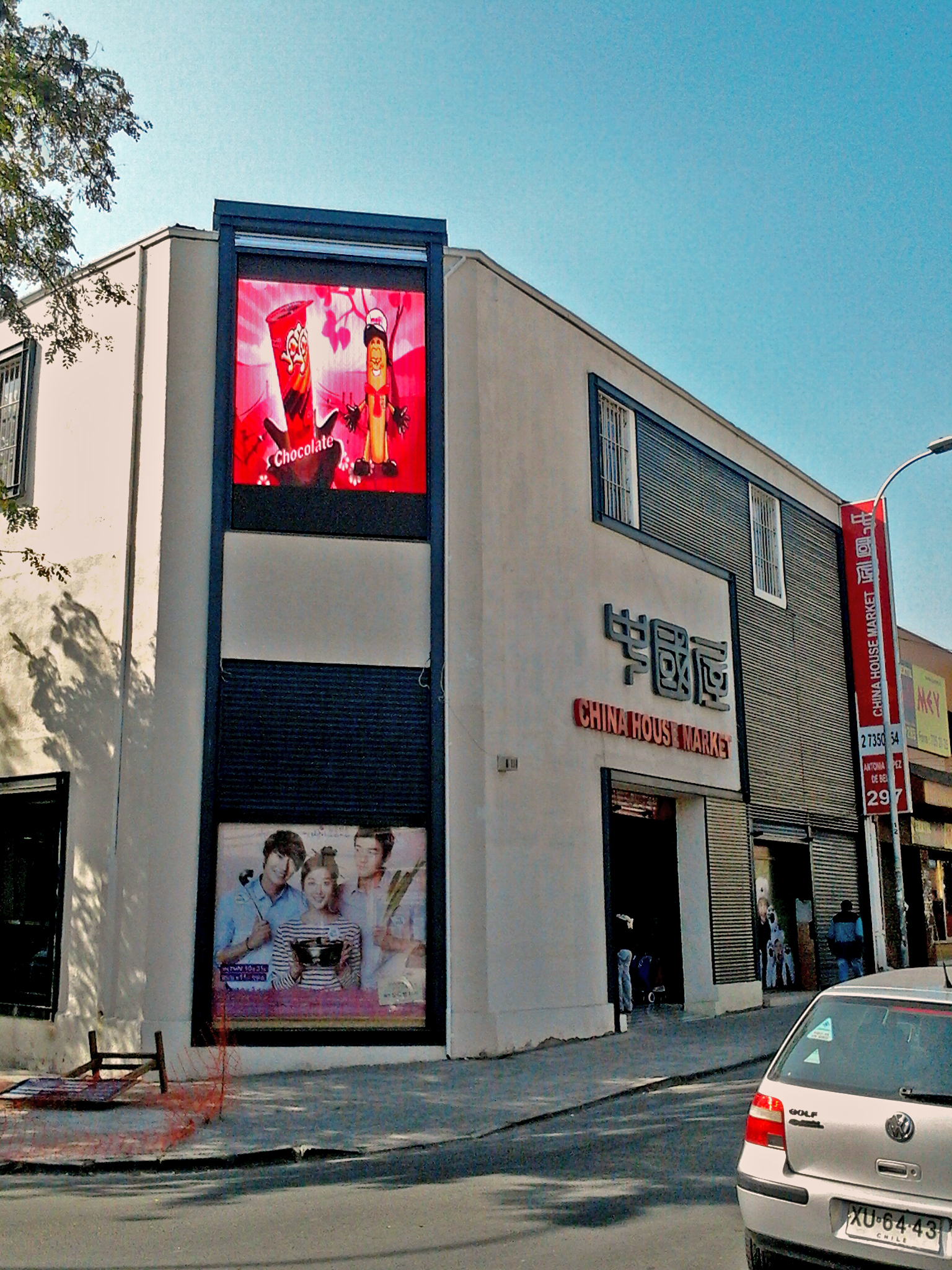 Korean supermarket at Antonia Lopez de Bello Street, Santiago de Chile.